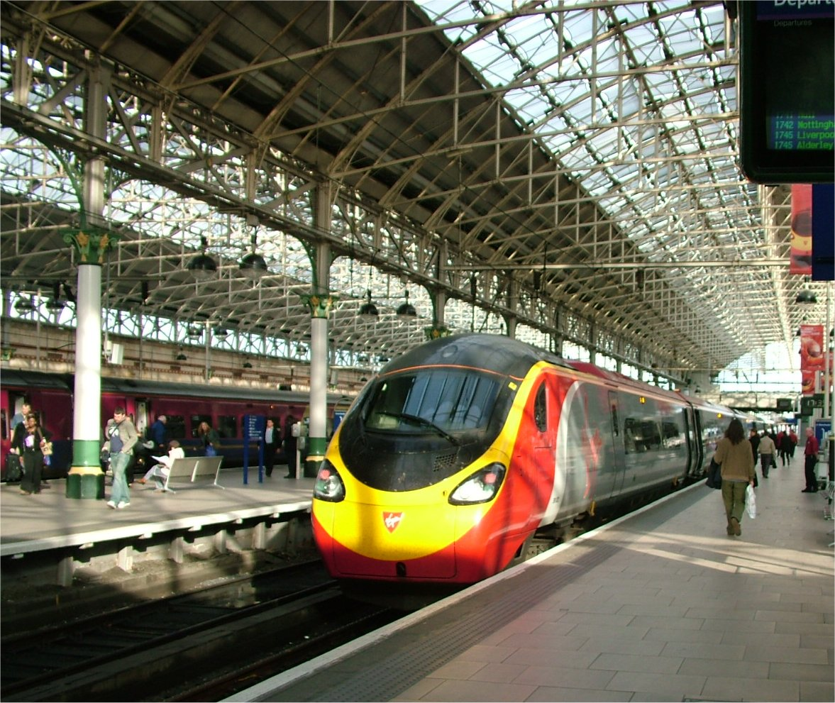 Virgin Trains Pendolino at Manchester Piccadilly station - April 11 2005 By Tagishsimon